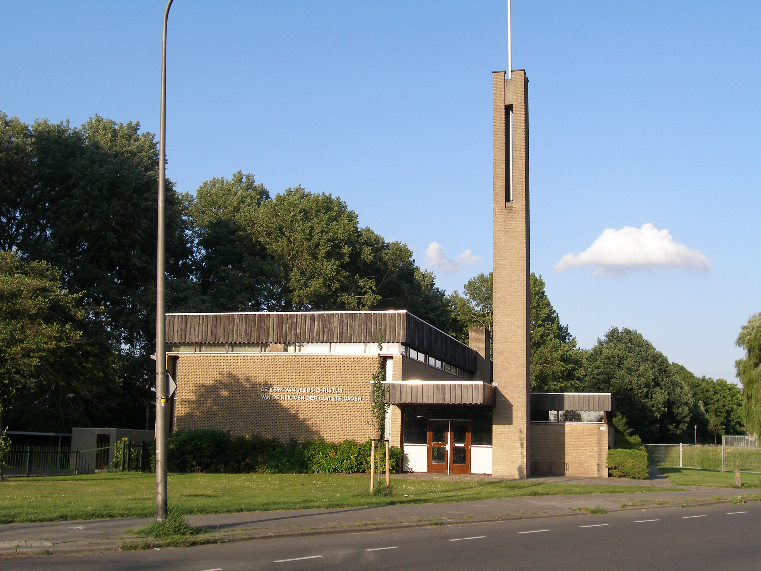 A meetinghouse of The Church of Jesus Christ of Latter-day Saints in Utrecht, the Netherlands.